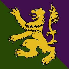 51ScotBde